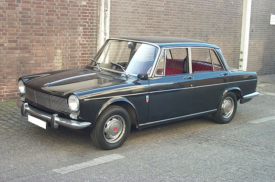 1964 Simca 1500 saloon, black, interior in red fake leatherFirst registered 1964, 85.408 km at the time the photo was taken The vehicle was on sale at the Garage de l'Est at the time the image was uploadedOriginal photograph digitally modified using GIMP (removed license plate number)